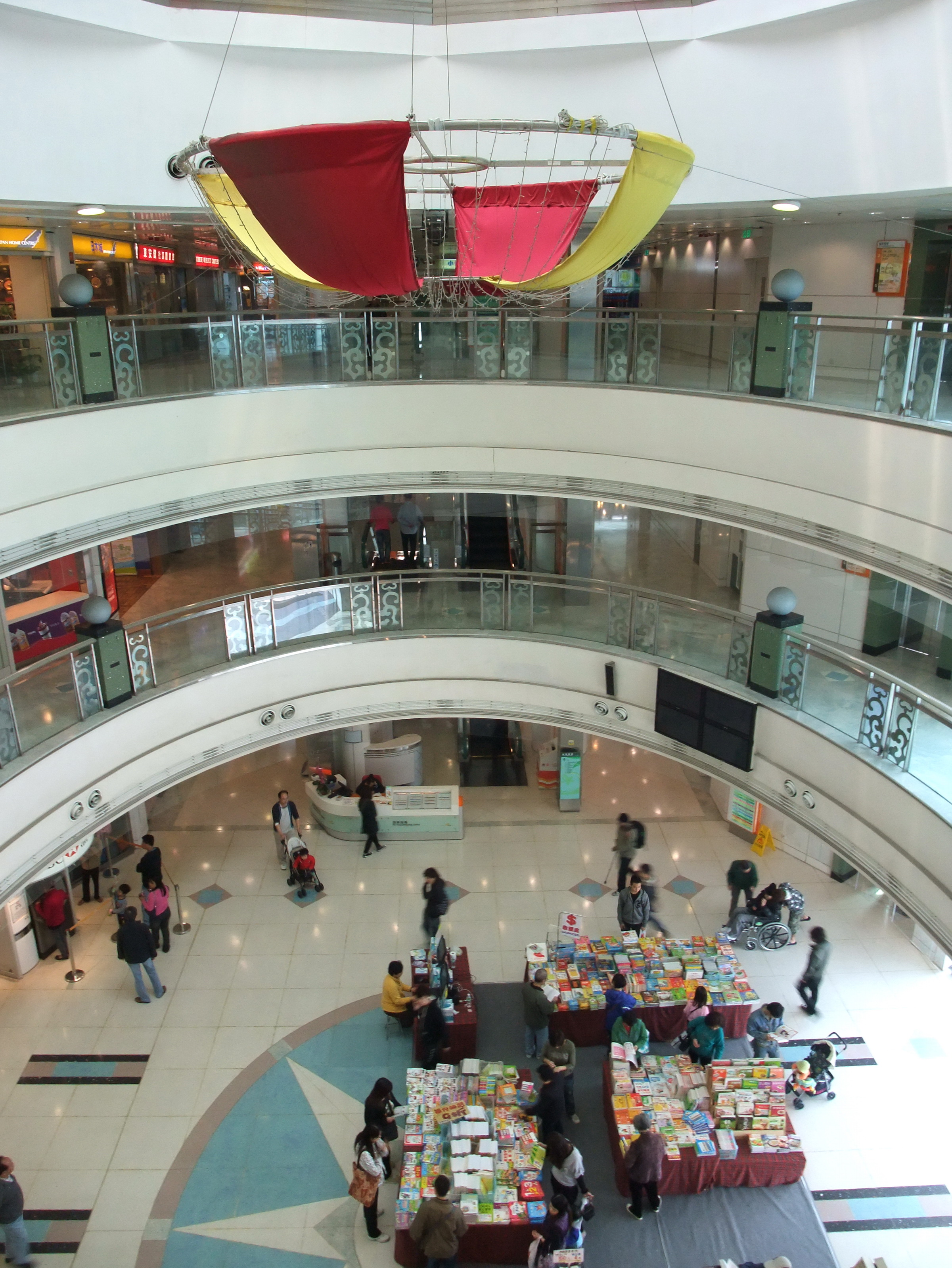 Yat Tung Shopping Centre in Yat Tung Estate, Tung Chung, Hong Kong.